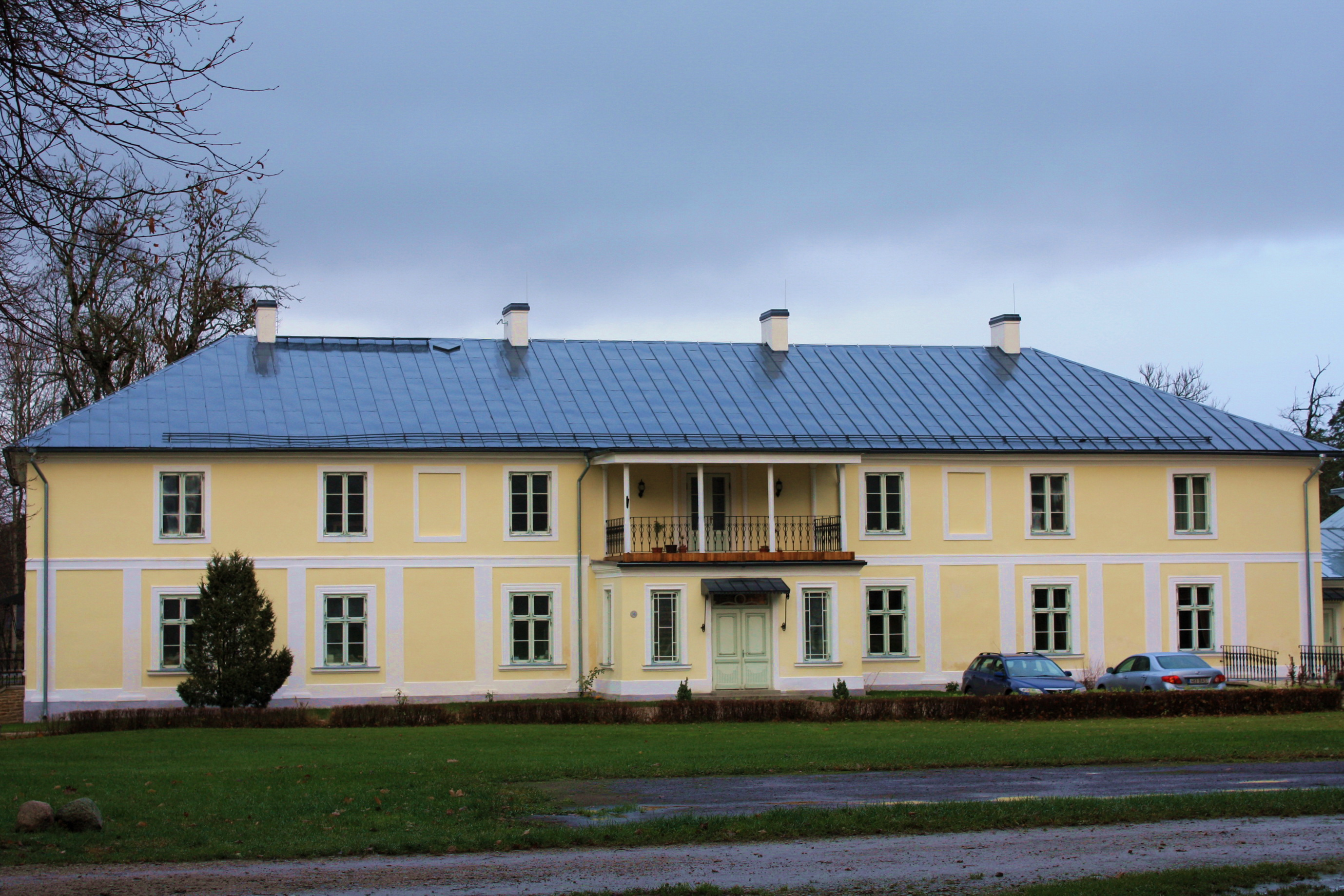 Padise manorhouse